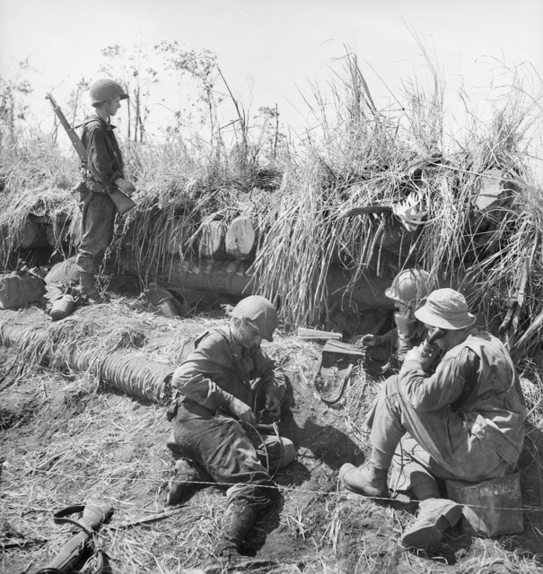 1942-12-05. PAPUA. ALLIES ATTACK BUNA. A SIGNALLERS' POST, MANNED BY AMERICANS, AT A FORWARD AREA IN BUNA. (NEGATIVE BY G. SILK).